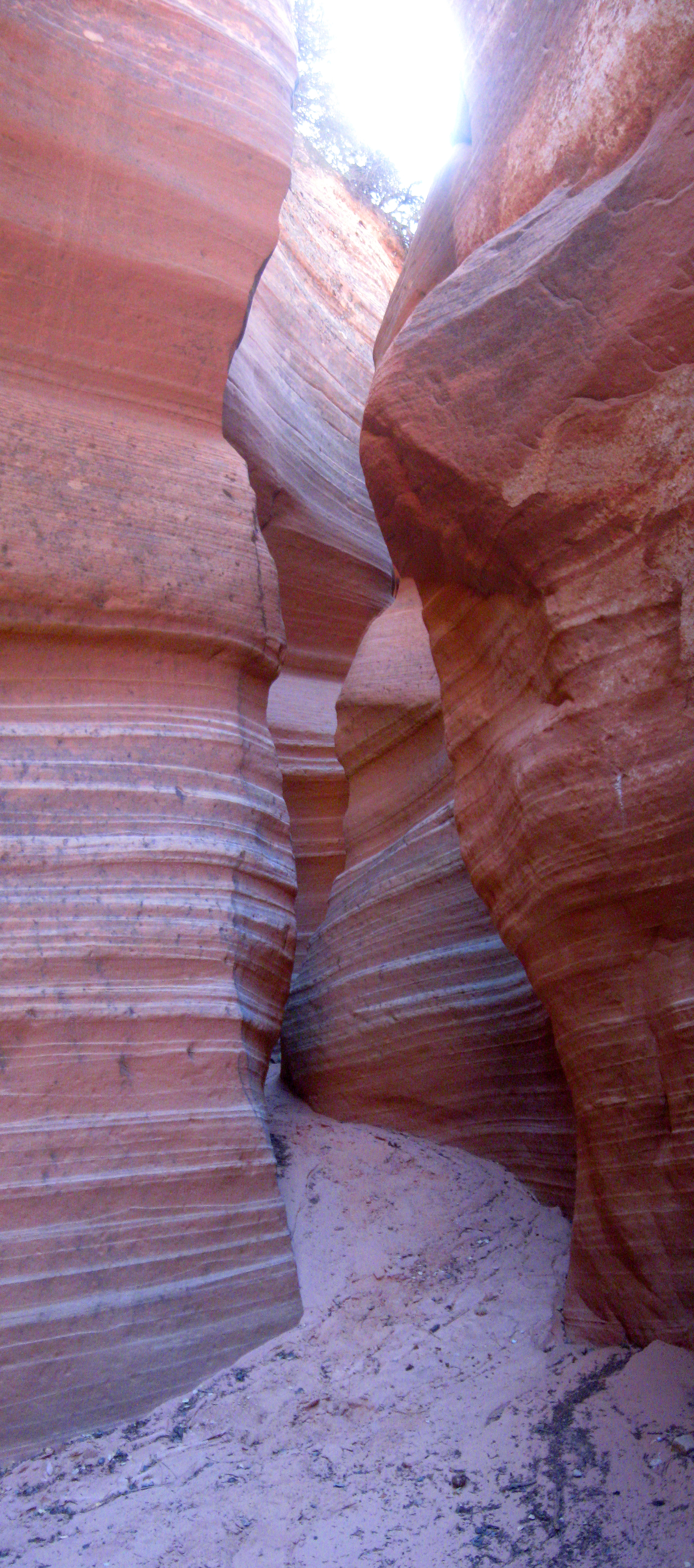 Narrows in Dianas Throne Canyon